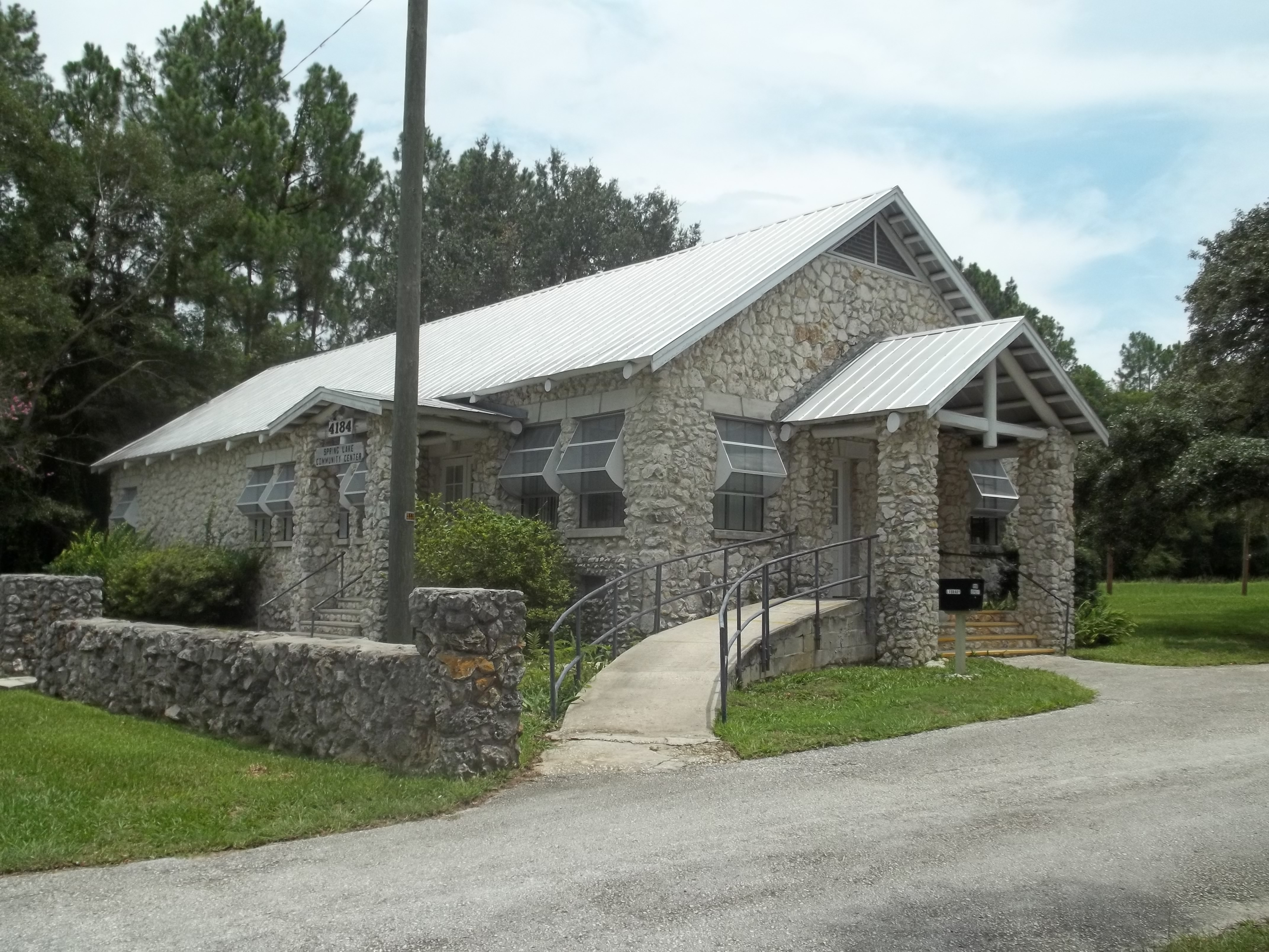 Spring Lake, Florida: Spring Lake Community Center